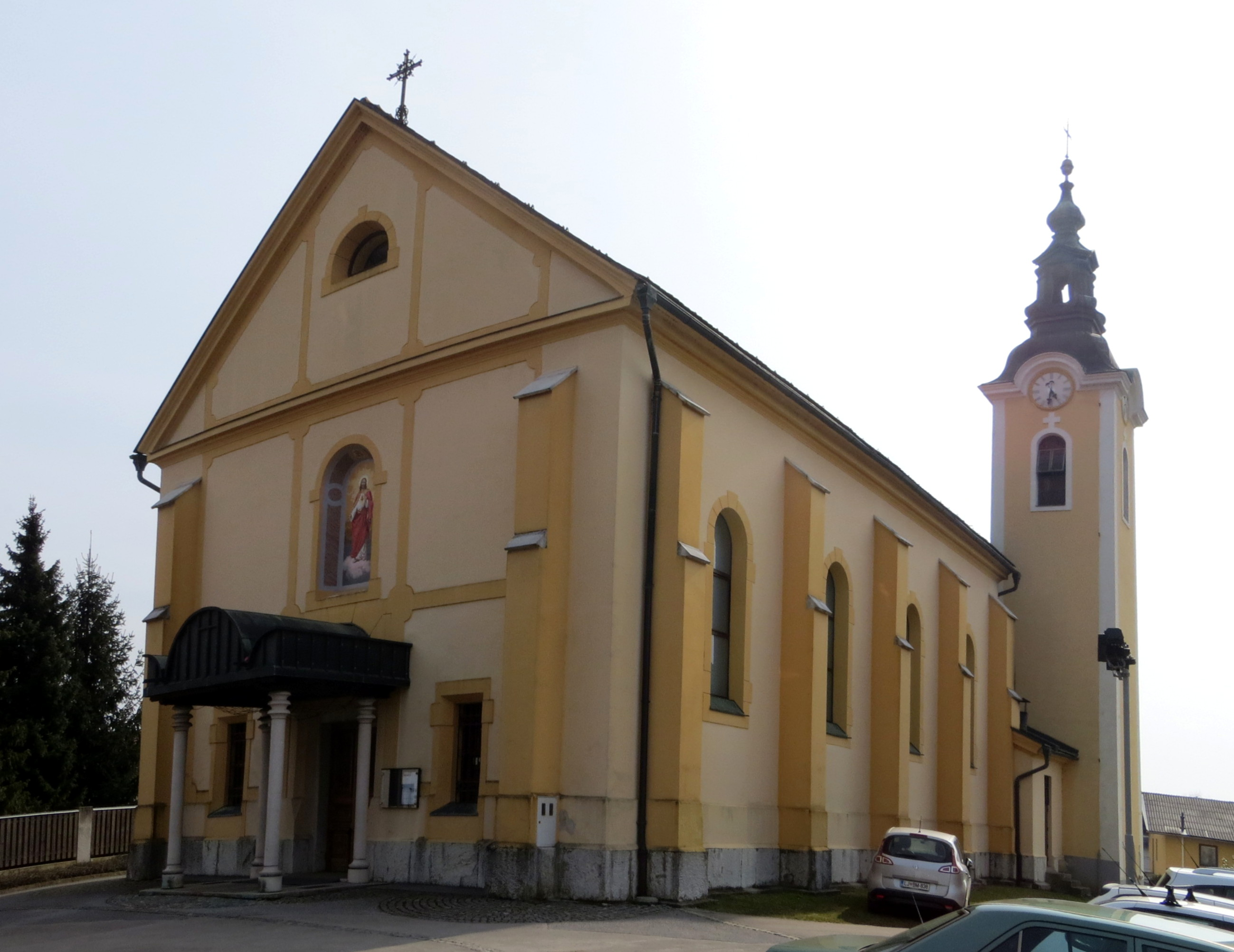 Saint James's Church in Šentjakob ob Savi, City Municipality of Ljubljana, Slovenia